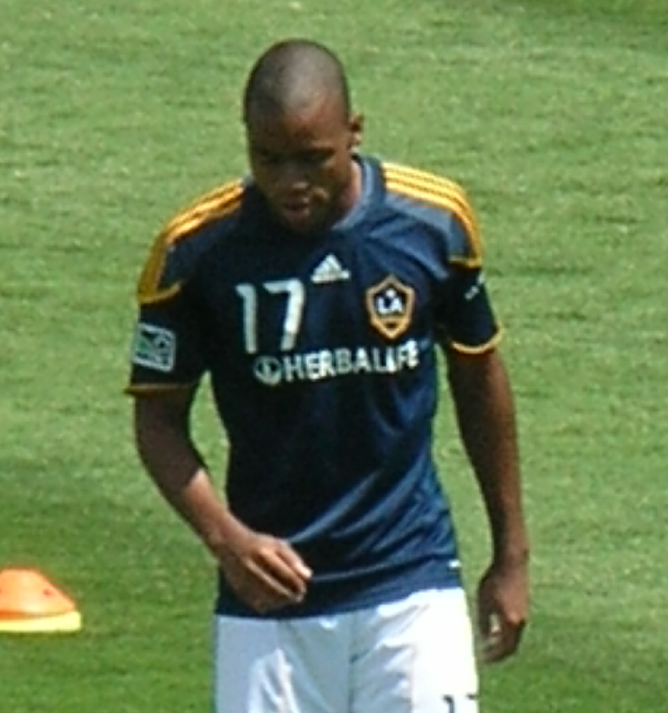 LA Galaxy defender Tristan Bowen warming up at an away game against the San Jose Earthquakes. The Earthquakes won 1-0.